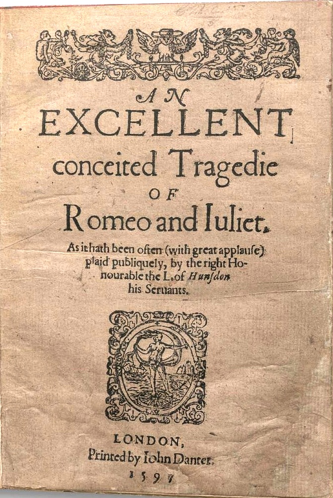 Title page of the first quarto edition (Q1) of William Shakespeare's play Romeo and Juliet printed by John Danter in 1597.